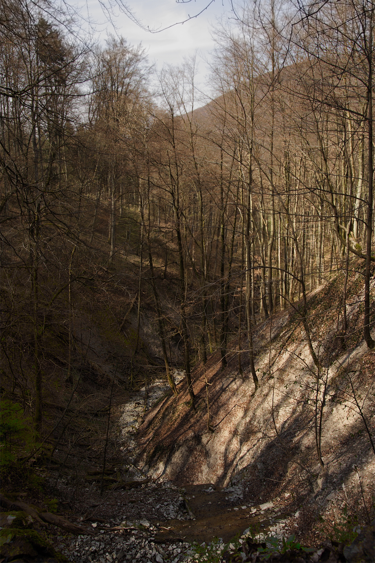 Teufelsklinge (devils valley), view from the spring cavity‘s plattform down the small v-shaped valley, which was eroded by Scree and water. At the Albtrauf (cuesta) of the eastern Swabian Alb.